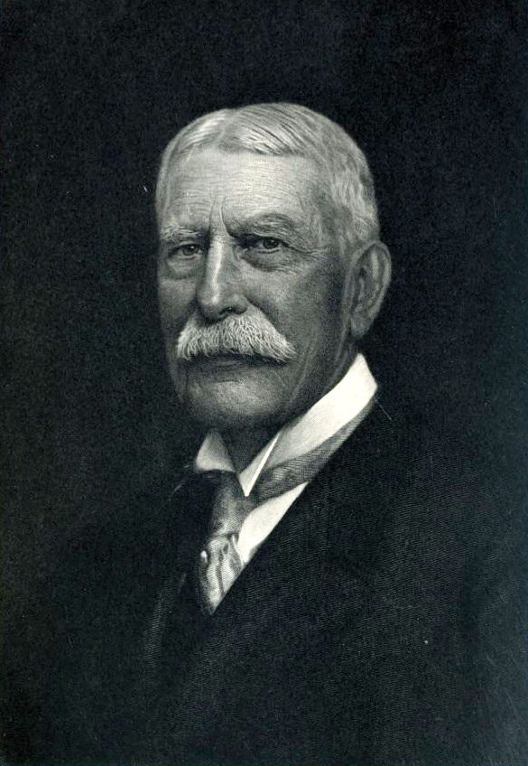 Portrait of Henry Morrison Flagler